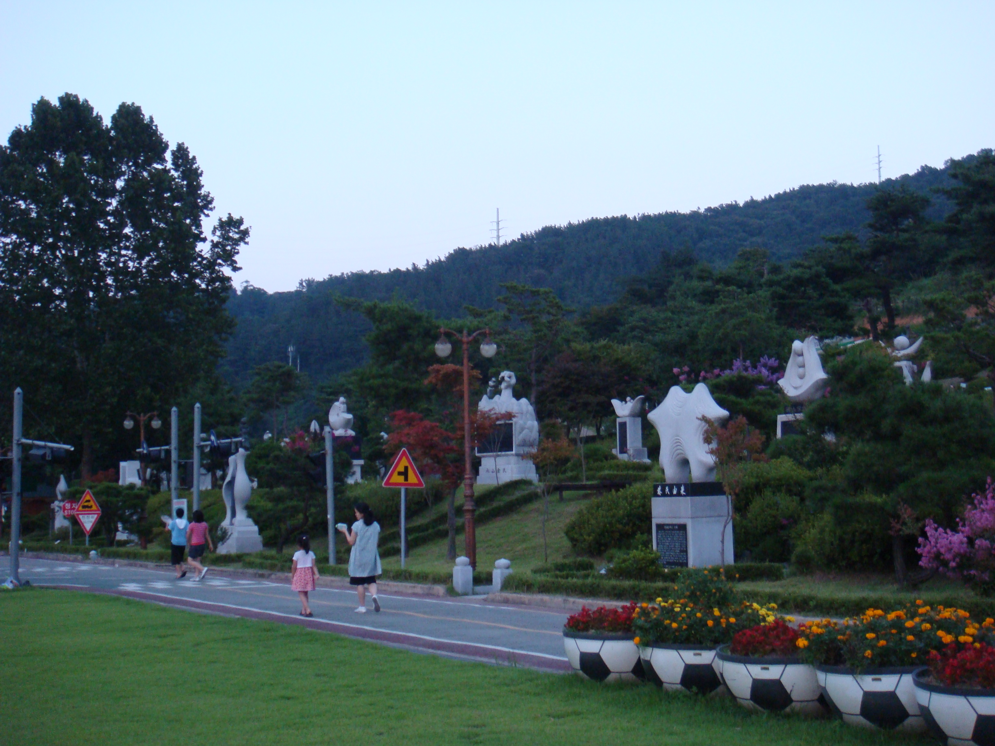 Park of Roots